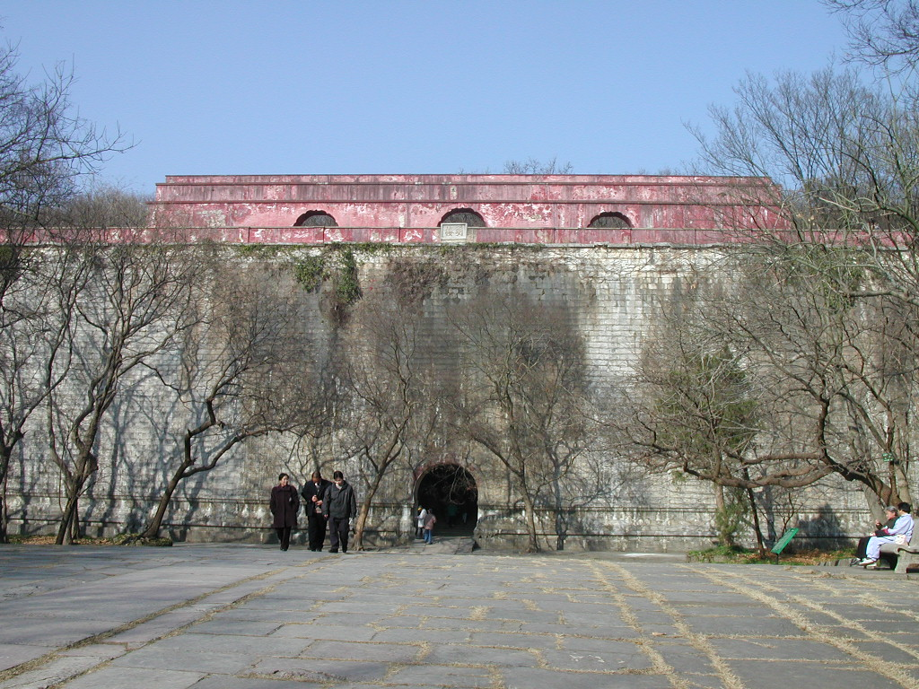 The main structure (Ming Lou) of the Ming Xiaoling mausoleum complex. It forms part of the front slope of the Lone Dragon Hill (Du Long Fu), the tumulus under which the Hogwu Emperor is supposed to have been buried. Note that on this picture (from 2000) the structure lacks the ornate pavilion on top, which must have been rebuilt some time before 2000 and 2010.